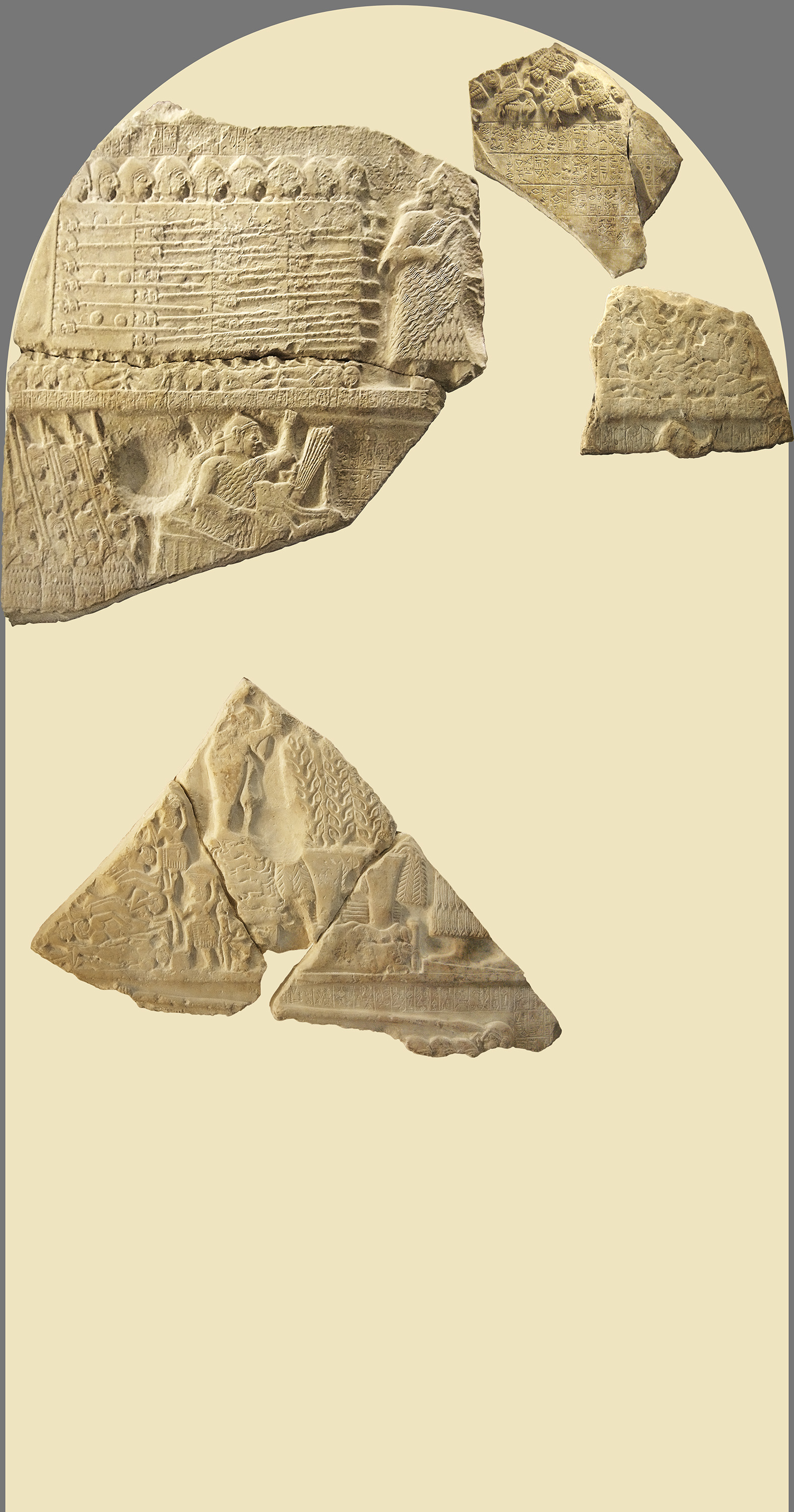 Reconstitution of the victory stele of the king Eannatum of Lagash over Umma, called « Stele of Vultures ». Historical side. Limestone, circa 2450 BC, Sumerian archaic dynasties. Found in 1881 in Girsu (now Tello, Iraq), Mesopotamia, by Édouard de Sarzec.